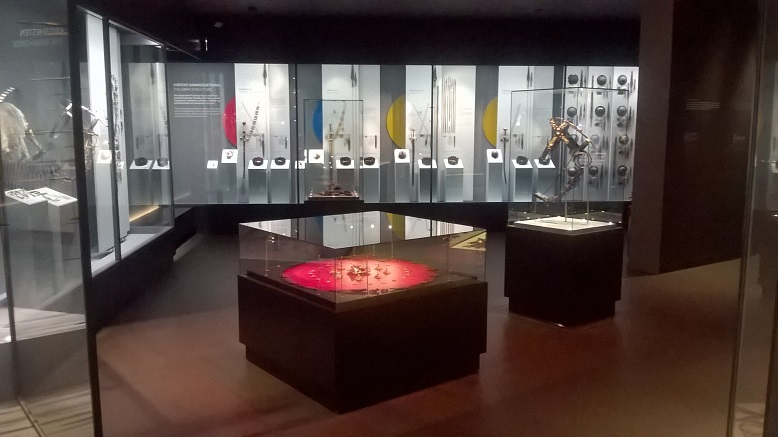 MOMU Moesgaard Museum Aarhus